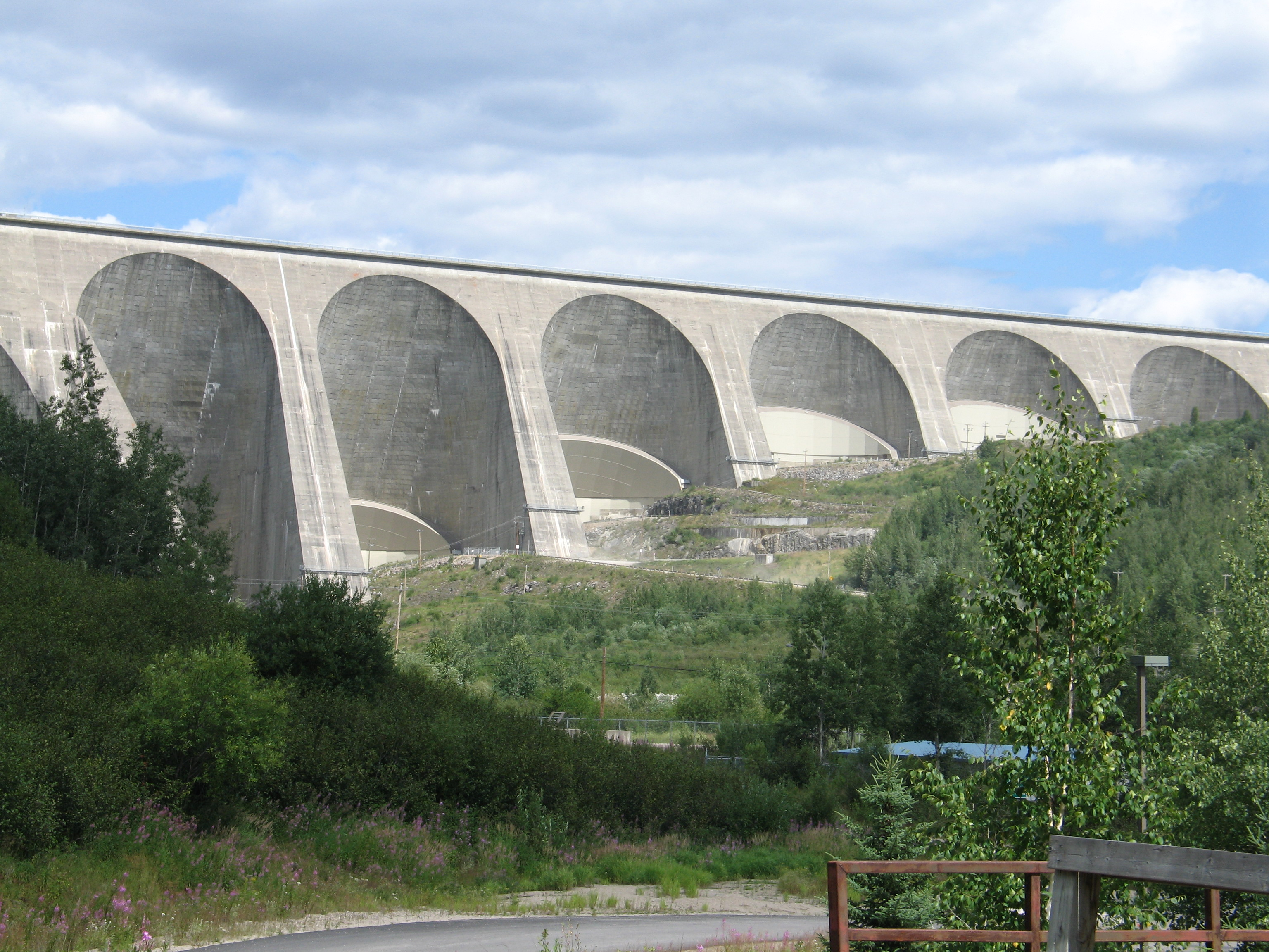 The Daniel-Johnson Dam, located 214 km north of Baie-Comeau, Quebec. The dam constructed between 1962 and 1968 is the cornerstone of Hydro-Quebec's Manic-cinq hydroelectric complex. The two electric generating stations located there have an installed capacity of 2592 MW.